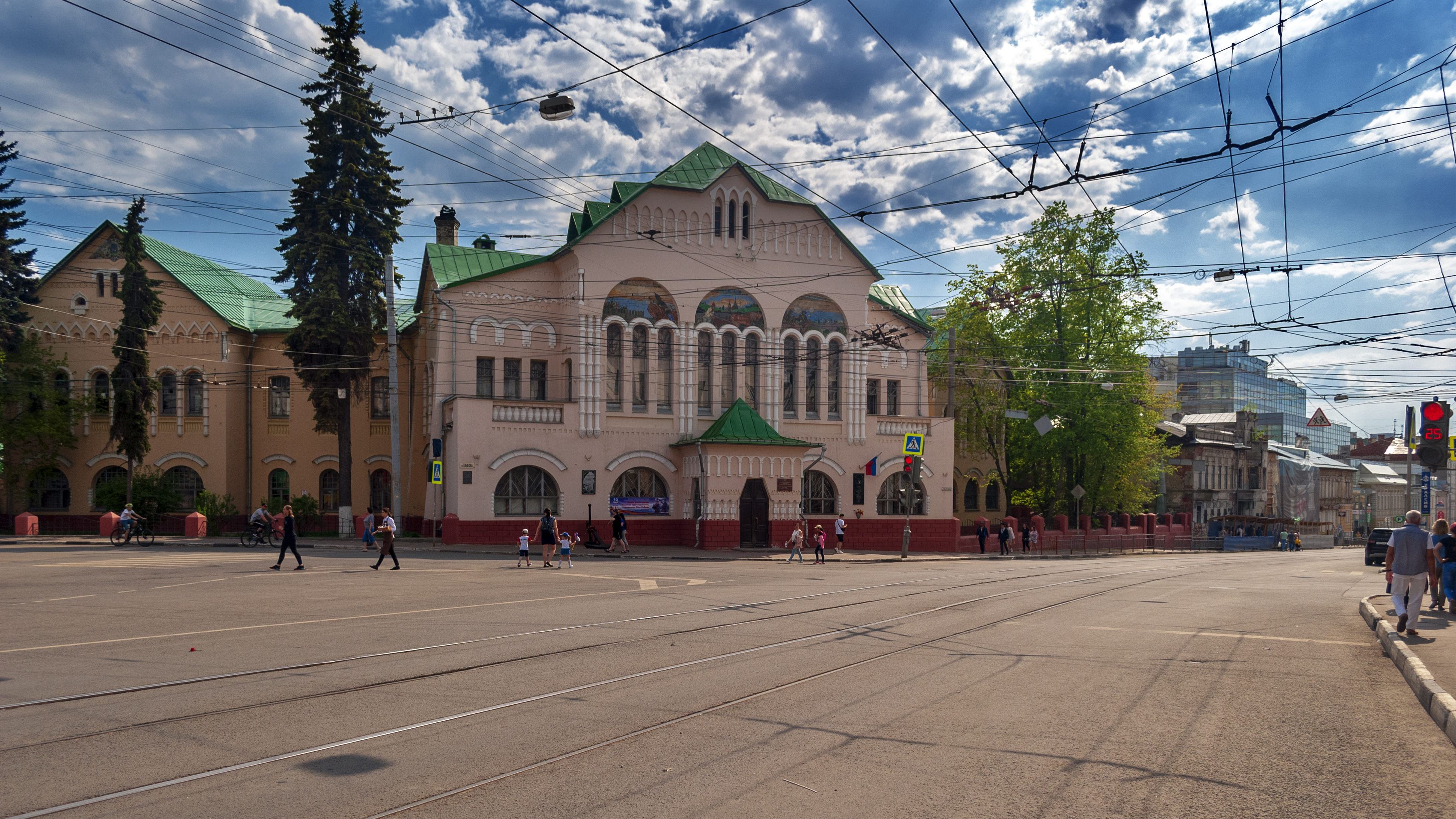 Nizhny Novgorod House of Junior Creation named Chkalov